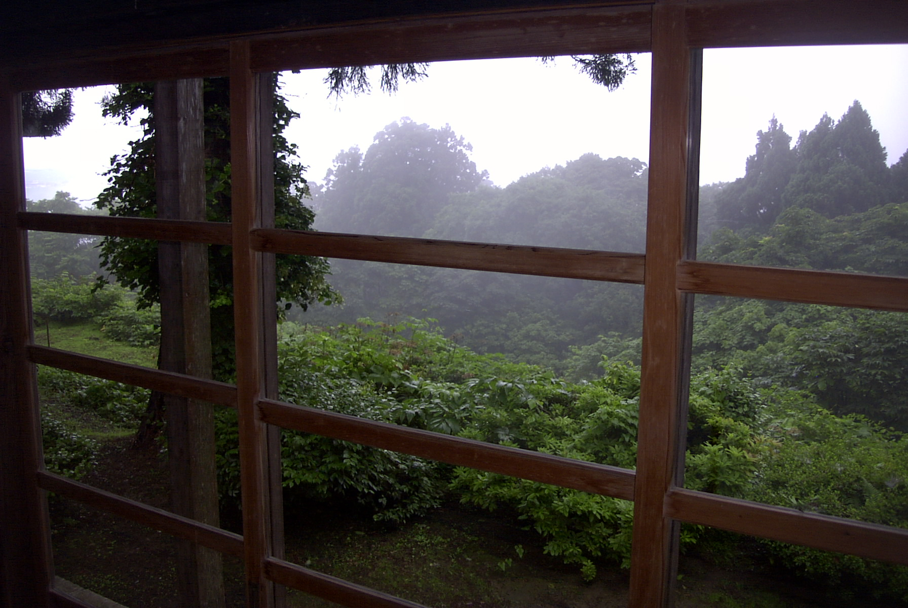 Saikan temple lodgings atop Haguro-san. Photo taken by me in July, 2006.